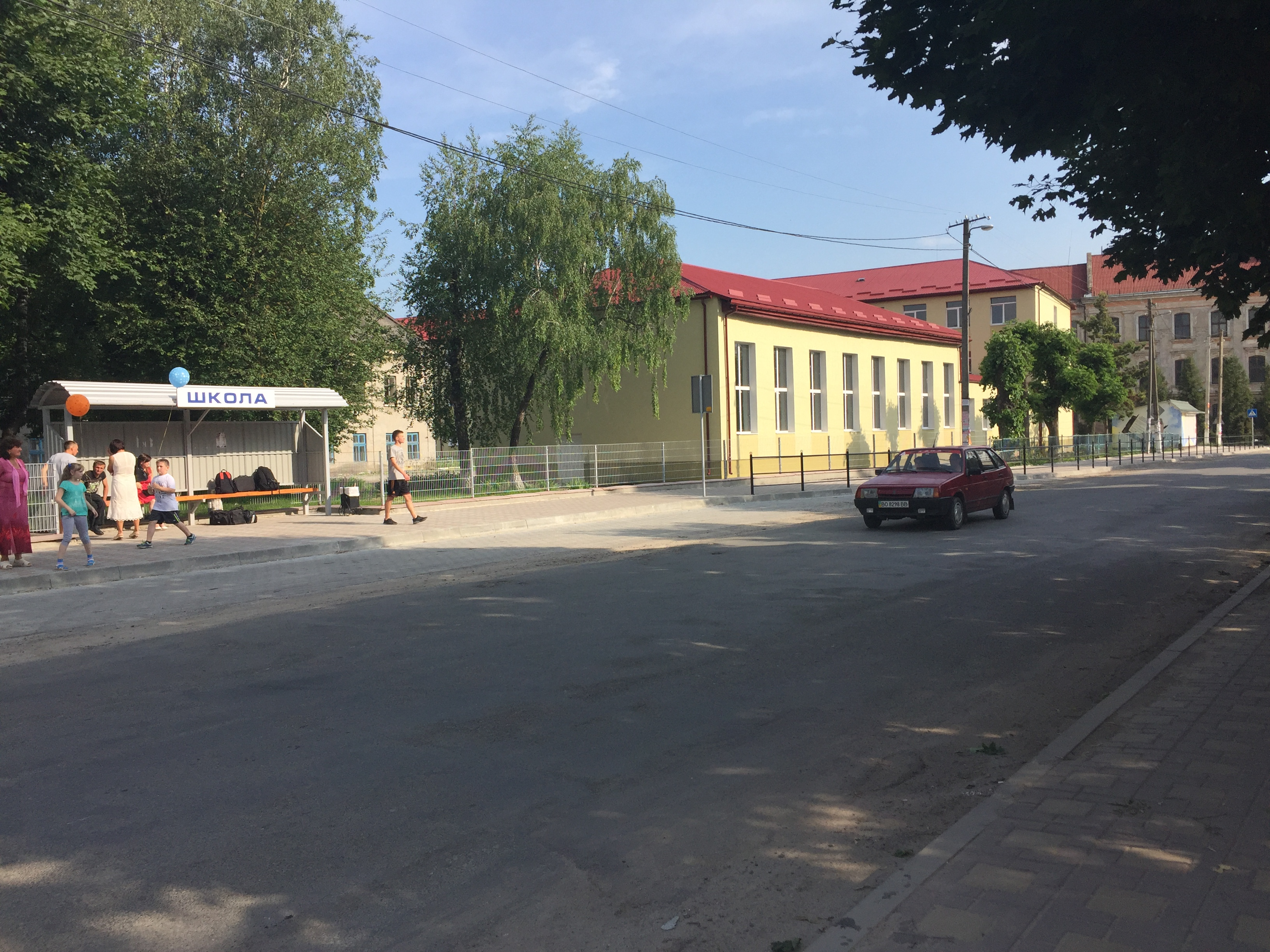 School in Monastyriska, June 2017